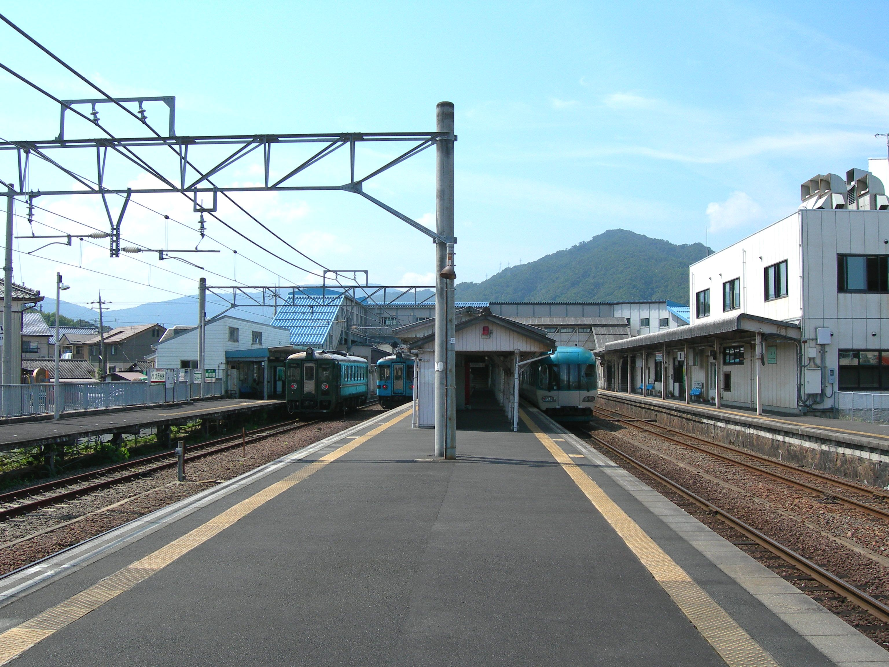 Platforms of Miyazu Station of Kitakinki Tango Railway